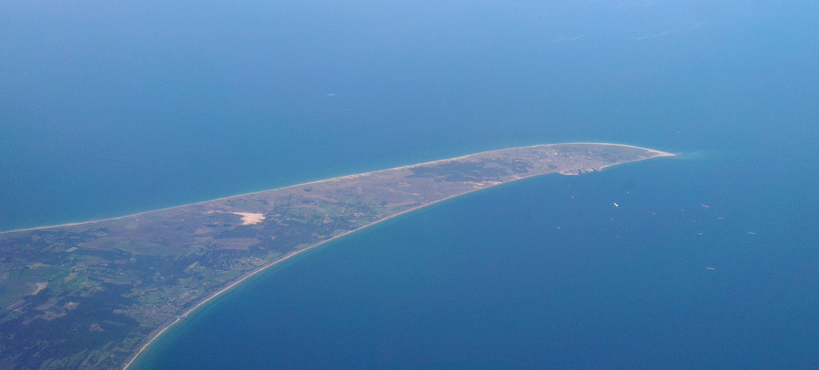 Taken from the south